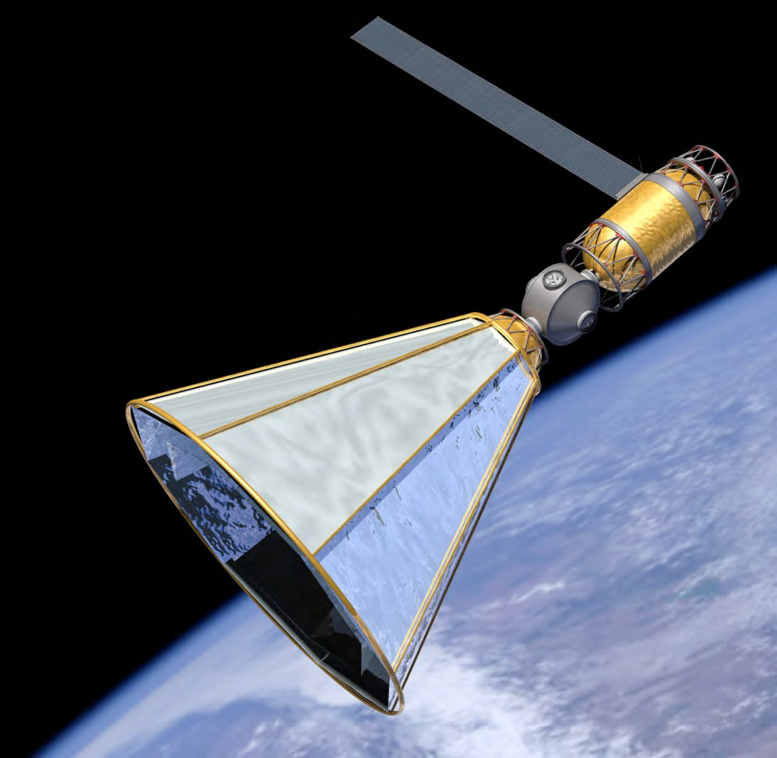 In parallel with a GEO depot a cryogenic depot should be started in LEO. This depot could be used to top-off upper stages with propellant in orbit reducing the launch performance penalty for caring the propellant to space. This capability would have two significant advantages over not using a depot. First it would enable getting more with existing launch vehicles and second it reduce the size of future launch vehicles needed to perform missions with a single launch vehicle). Once this depot capability is operational larger missions can be performed, like going to the Moon, using existing launch vehicles reasonably soon.